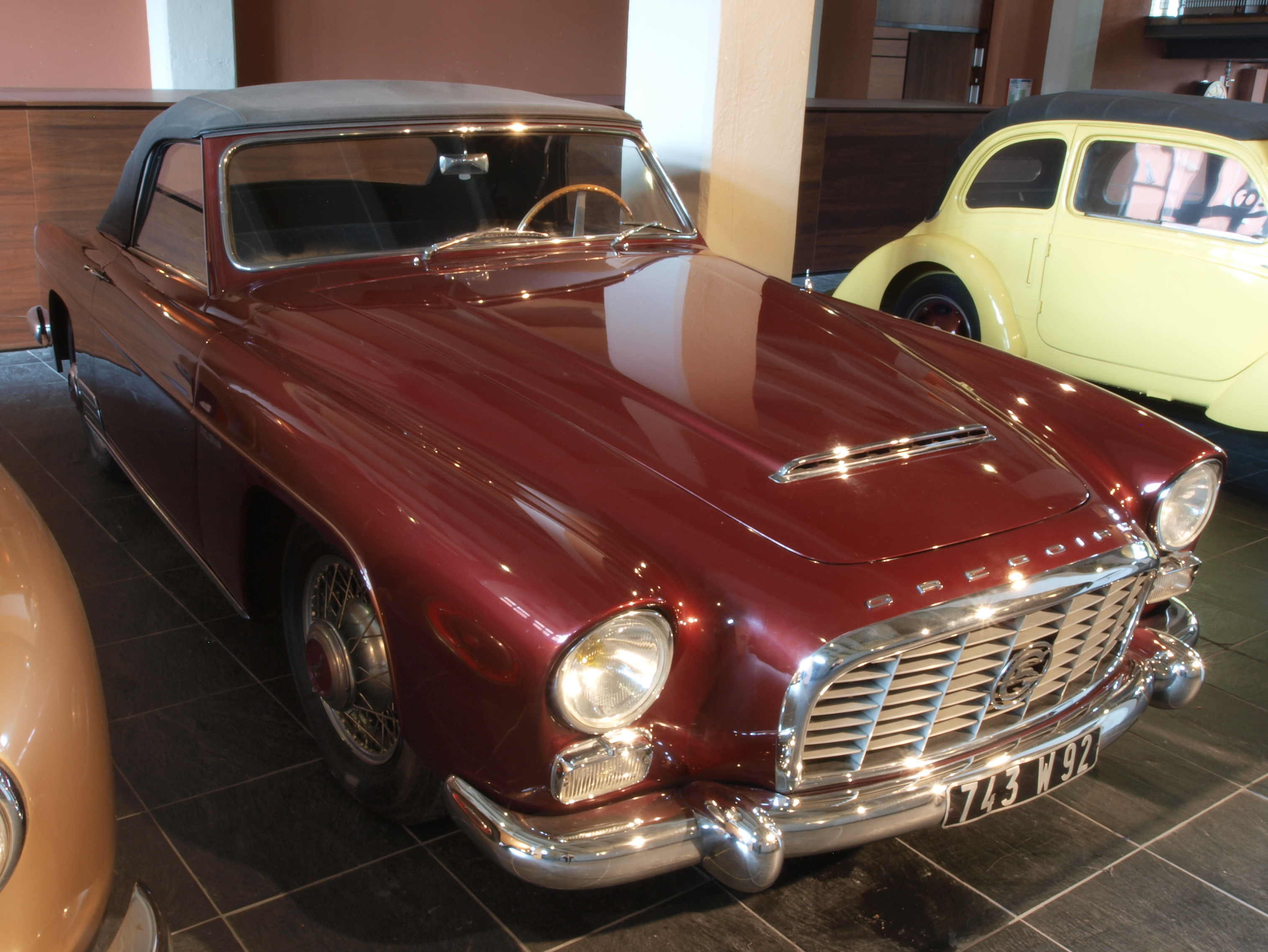 Photographed at the Cité de l’Automobile, France. OLYMPUS DIGITAL CAMERA